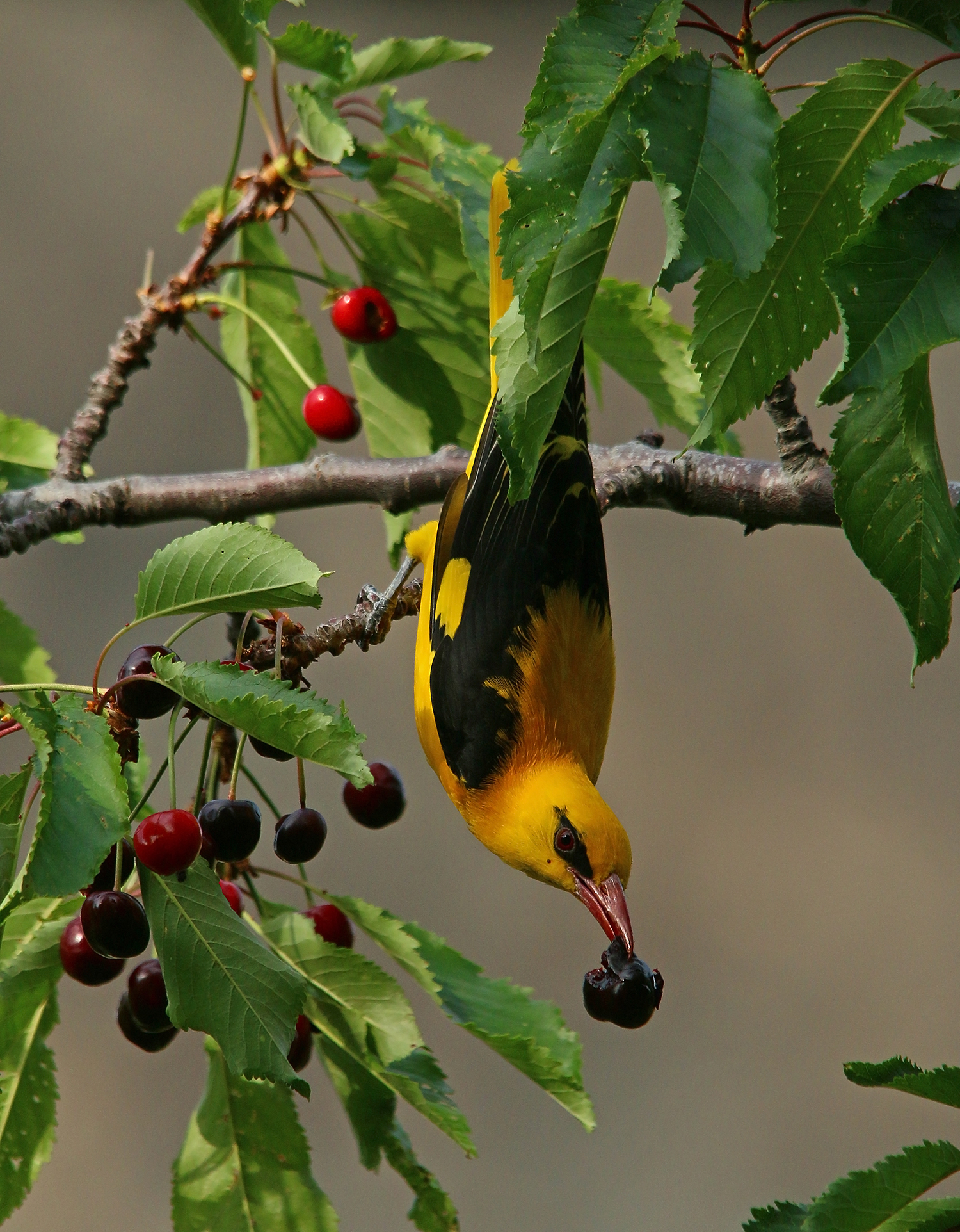 Golden Oriole (Oriolus oriolus) captured at Jutial, Gilgit, Gilgit-Baltistan, Pakistan with Canon EOS 70D